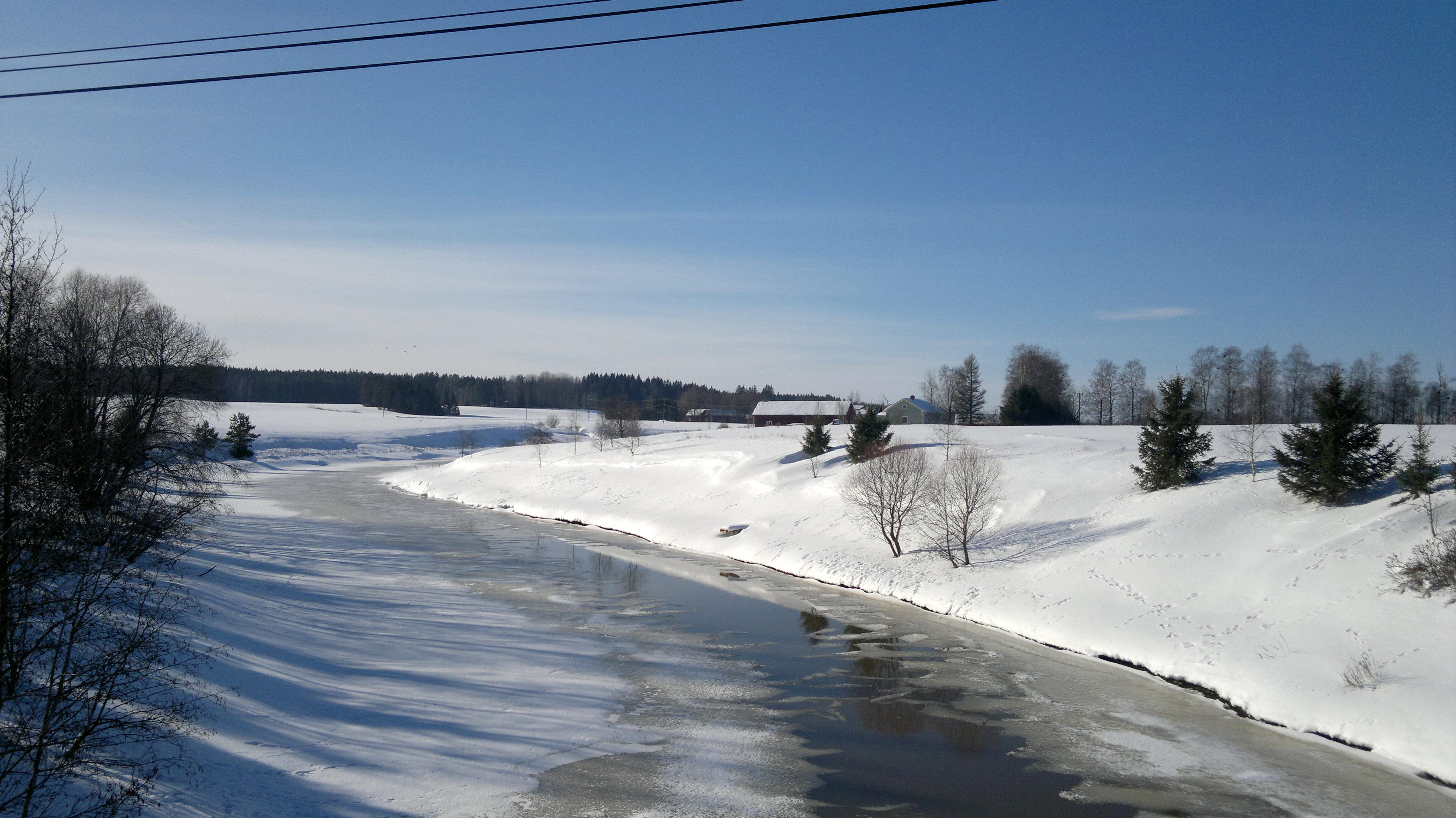 Winter view of River Paimionjoki in Somero, Finland Proper, Finland Seen from Kärilän silta bridge. In the background the historical village sites of Pyöli (right) and Kärilä (left).